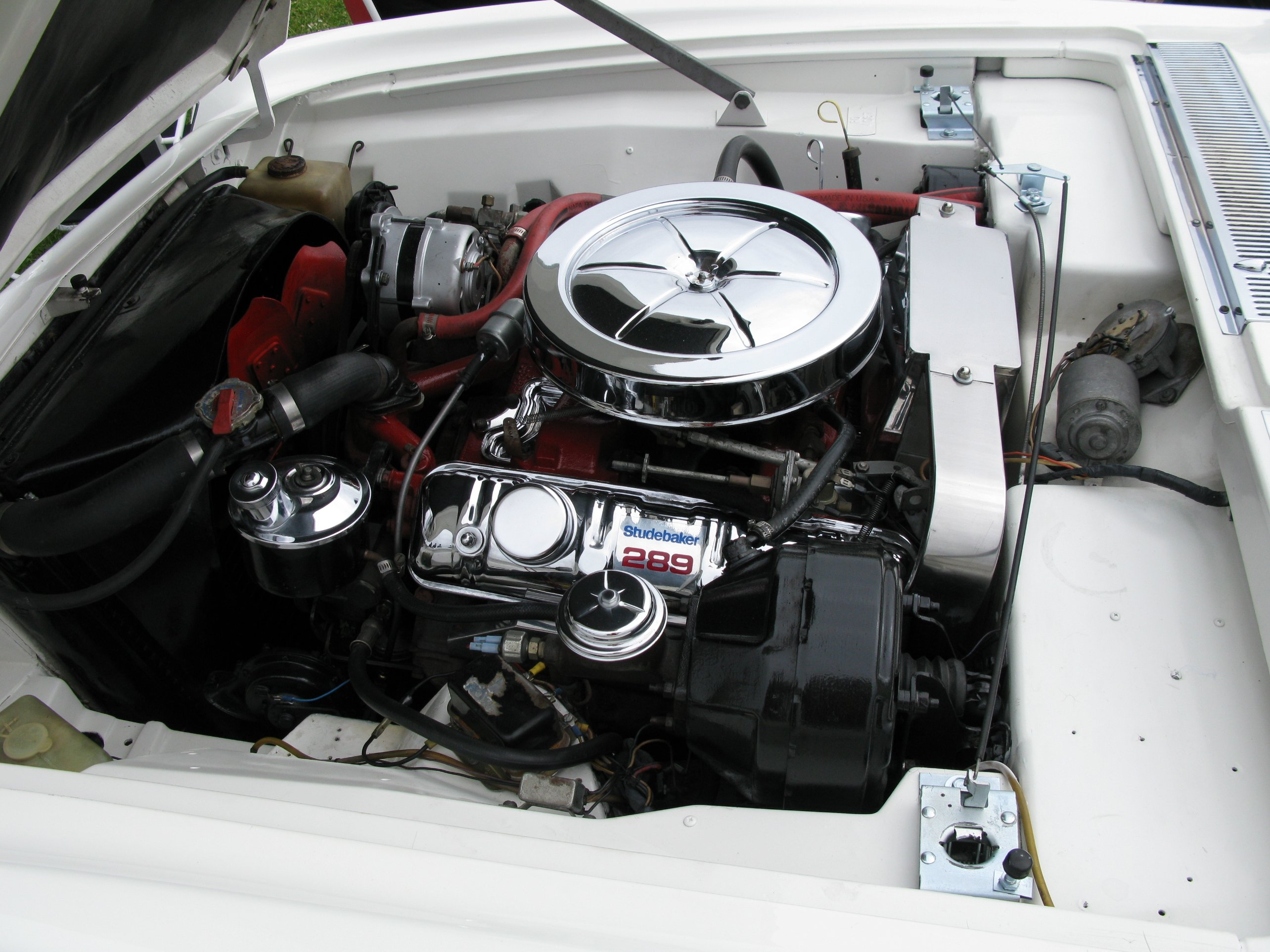 Studebaker Avanti 289 cui engine.